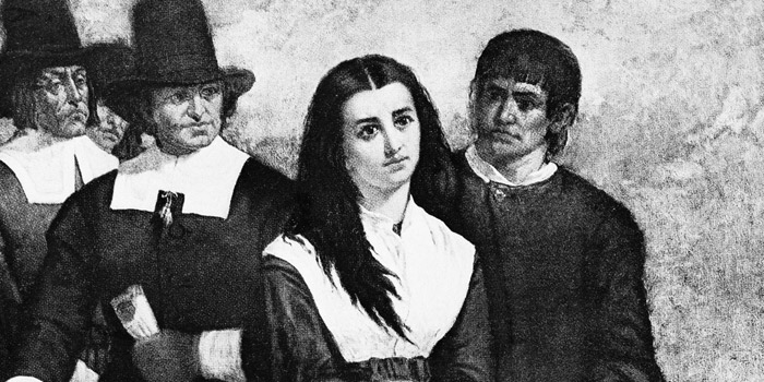 A black-and-white portion from the painting "Witch Hill (The Salem Martyr)"